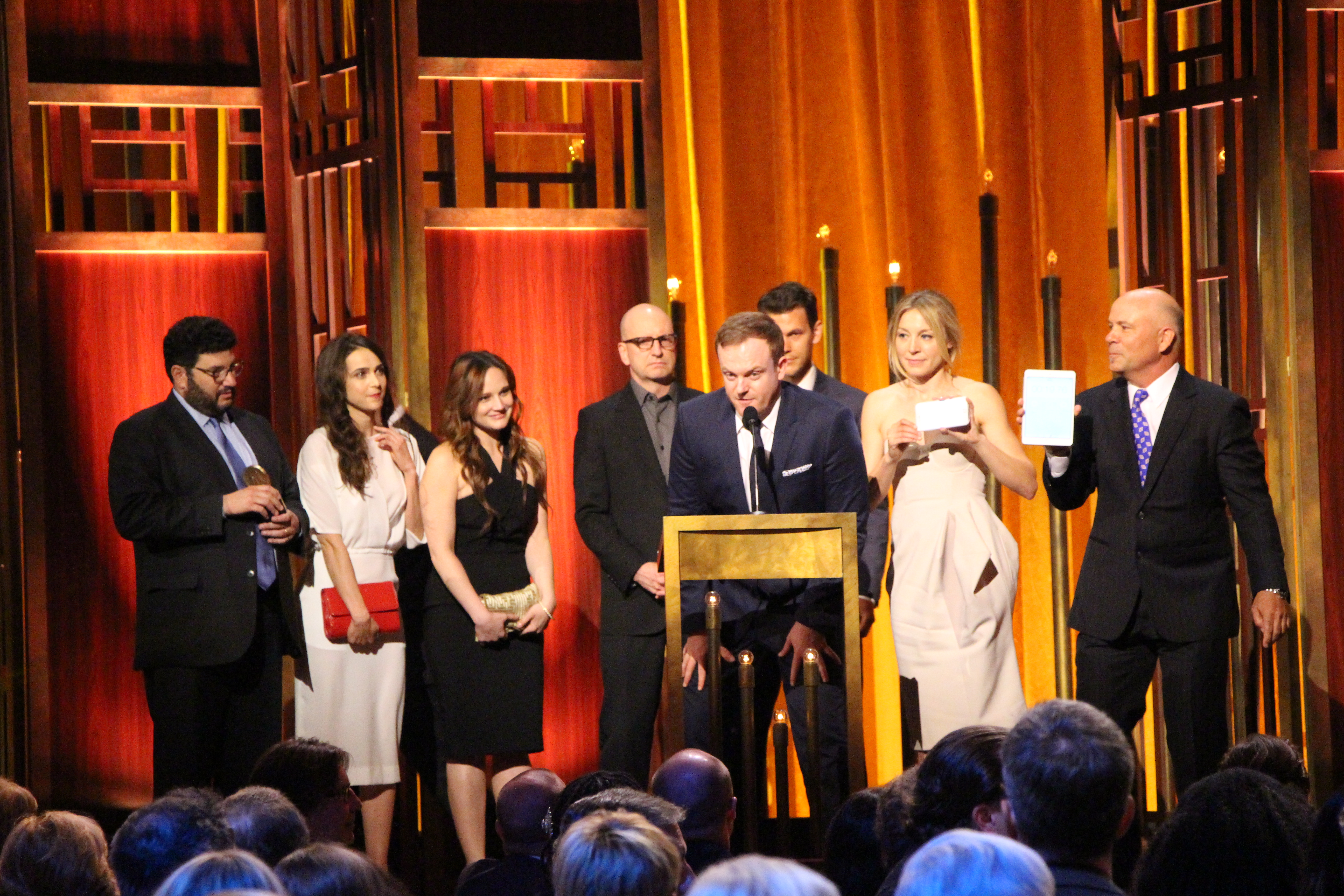 Jeremy Bobb, Herman Barrow on The Knick, speaks at the podium with (from left to right) Jack Amiel, Maya Kazan, Jo Armeniox, Steven Soderbergh, Juliet Rylance and Michael Polaire.